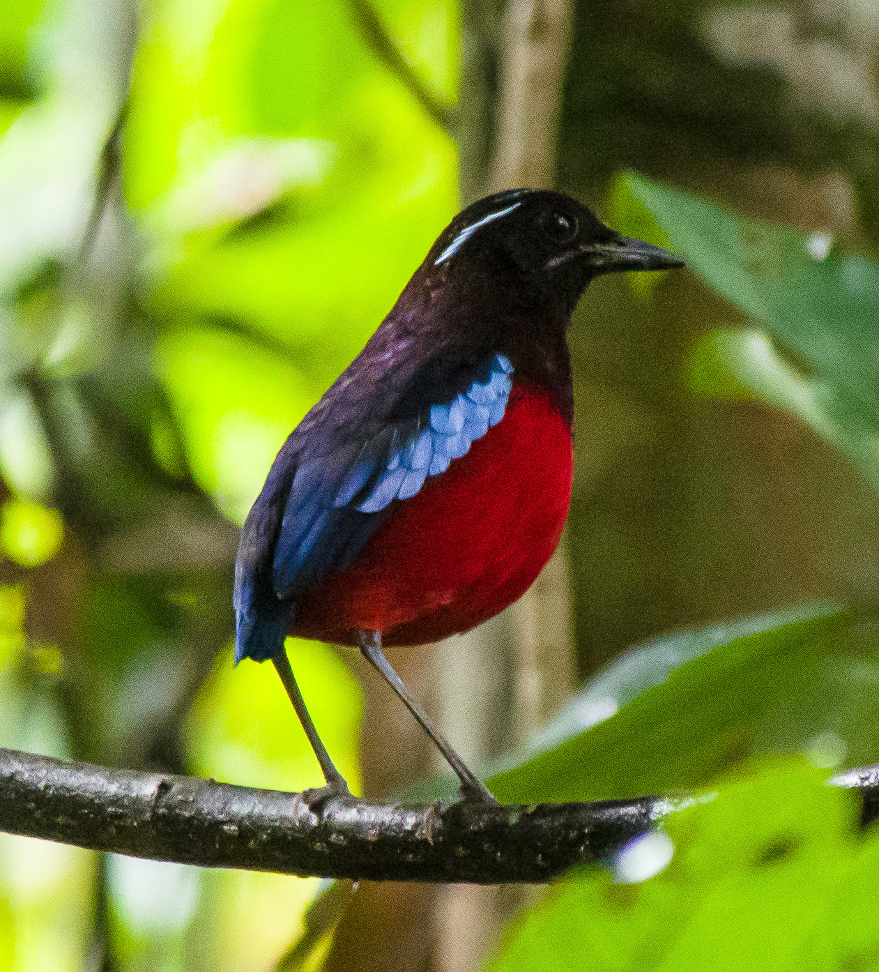 Black-crowned (or Black-and-crimson) pitta on a perch in Danum Valley Conservation Area, Sabah, Malaysia